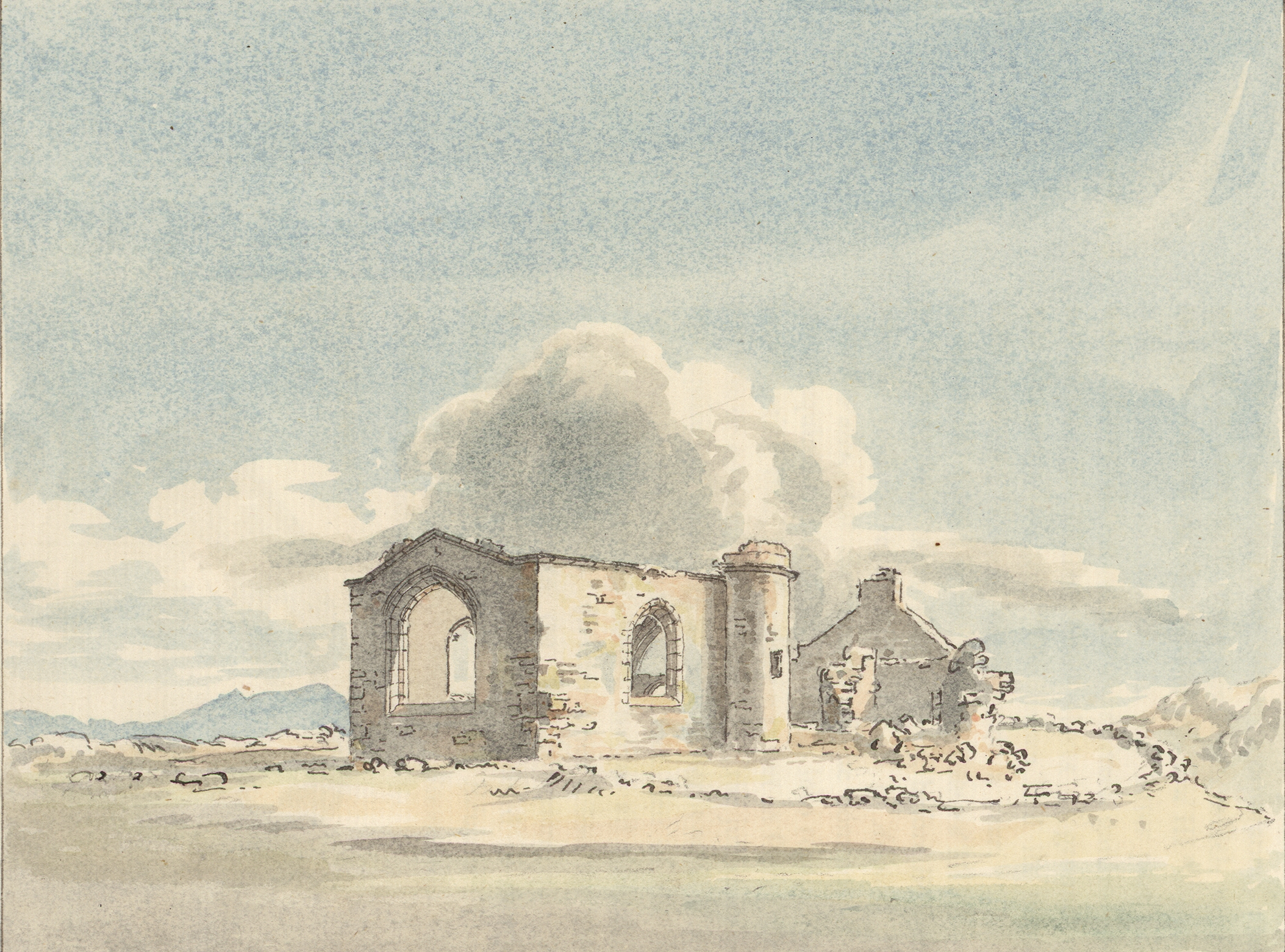 An image from a set of 8 extra-illustrated volumes of A tour in Wales by Thomas Pennant (1726-1798) that chronicle the three journeys he made through Wales between 1773 and 1776. These volumes are unique because they were compiled for Pennant's own library at Downing. This edition was produced in 1781. The volumes include a number of original drawings by Moses Griffiths, Ingleby and other well known artists of the period. Thomas Pennant (1726-1798)